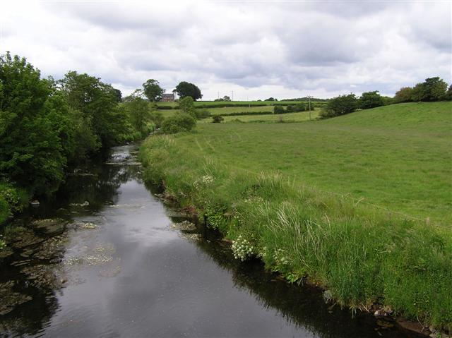 River Bush Looking west from Bellisle Bridge